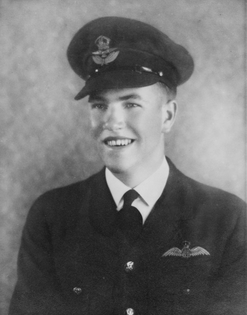 Probably Sydney, NSW. Studio portrait of 39461 Flight Lieutenant Patterson Clarence Hughes DFC who died 7 September 1940 aged 22, during the Battle of Britain, serving with No. 234 Squadron RAF. During the Battle of Britain he was the top-scoring Australian pilot credited with shooting down 14 enemy aircraft and 3 other shared kills. He was awarded the DFC posthumously on 22 October 1940.